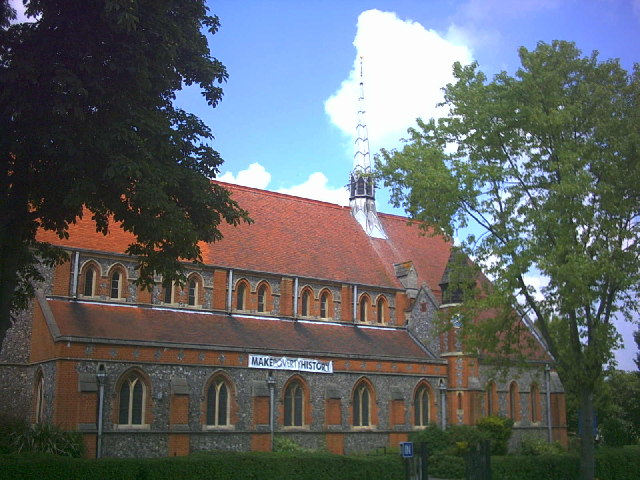 St Mary the Virgin parish church, The Avenue, Worcester Park, Surrey, seen from the south